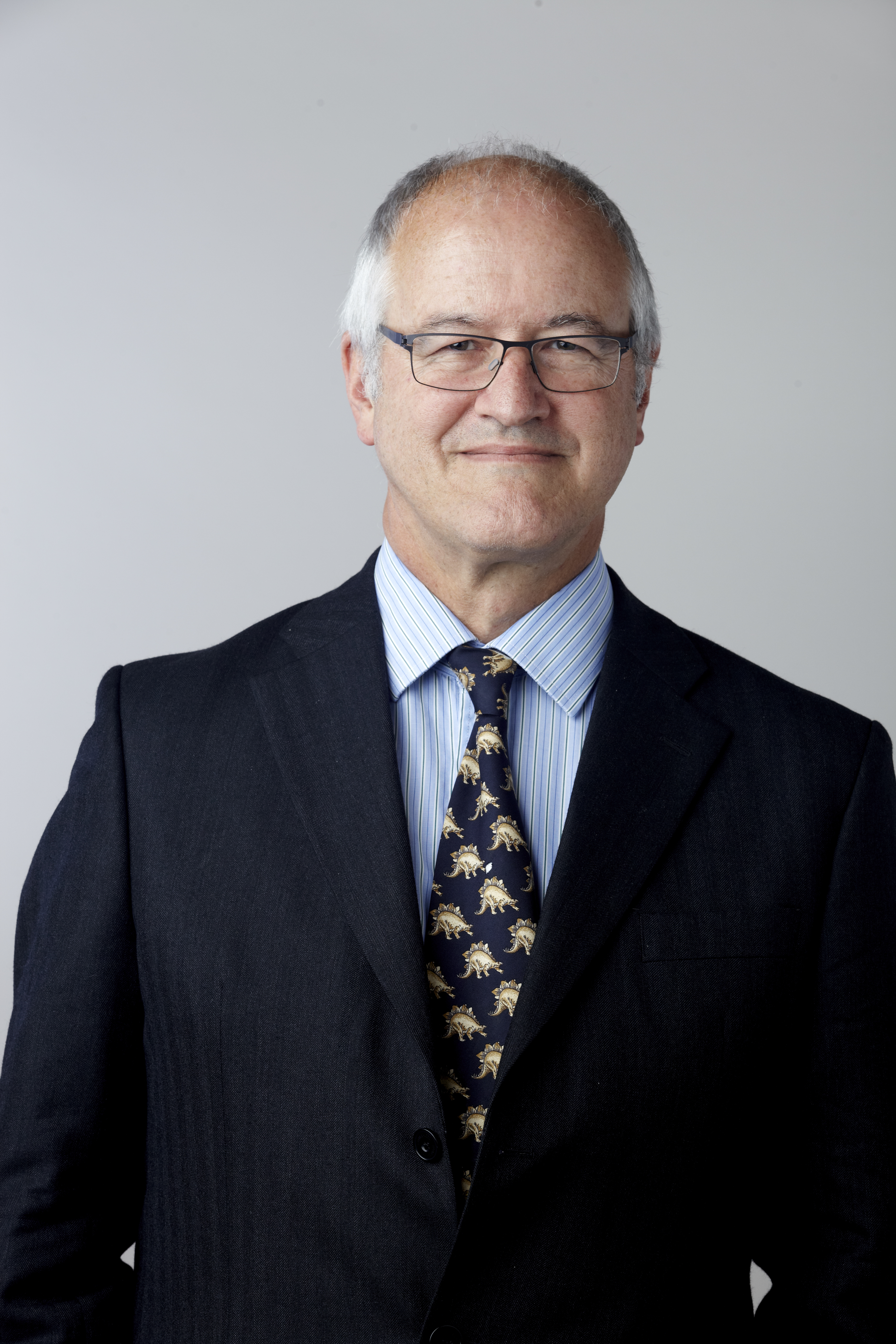 Professor Michael Benton FRS, Royal Society Fellow elected 2014 Attribution: The Royal Society